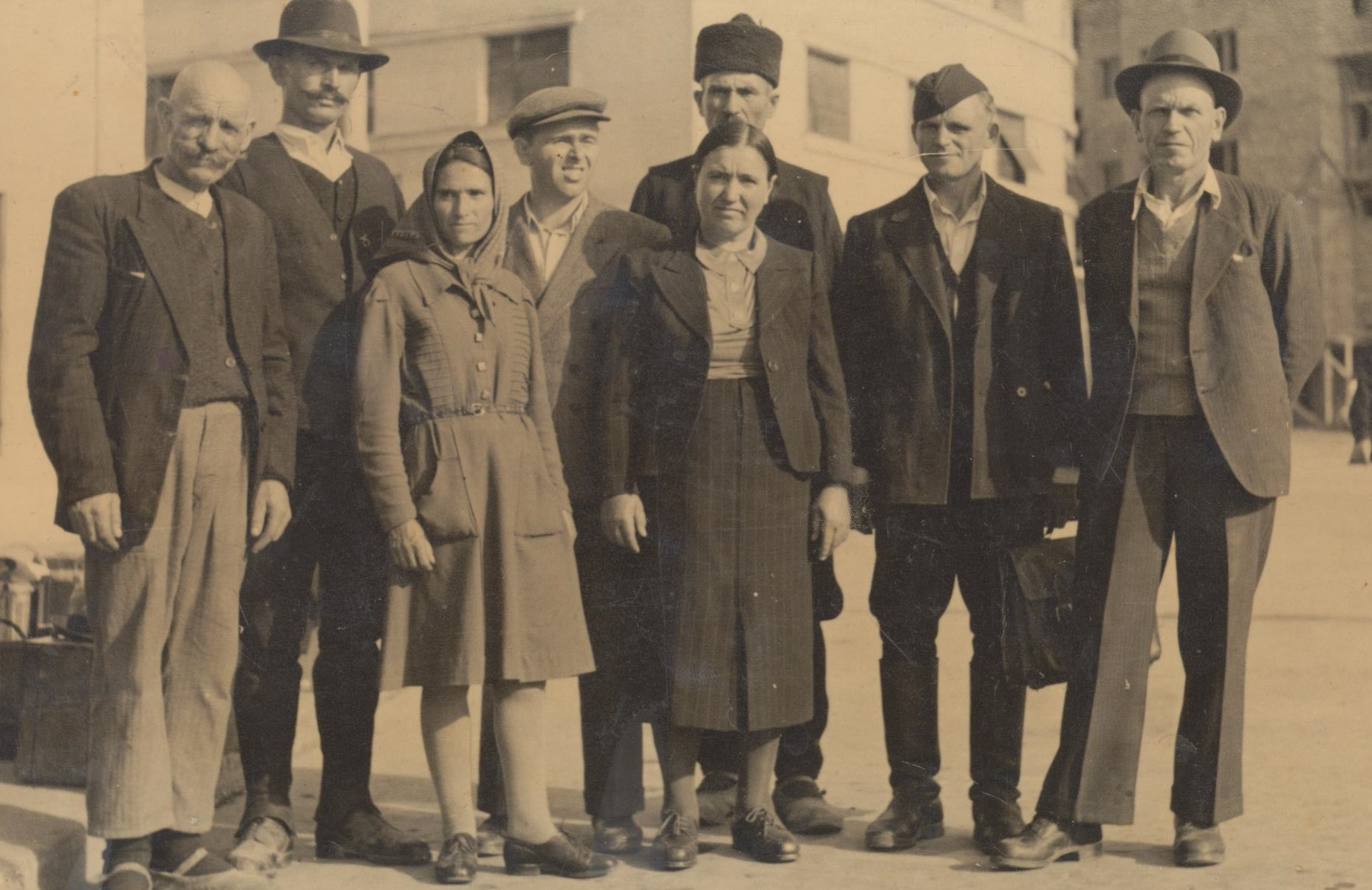 People of colony Nova mala in Pirot